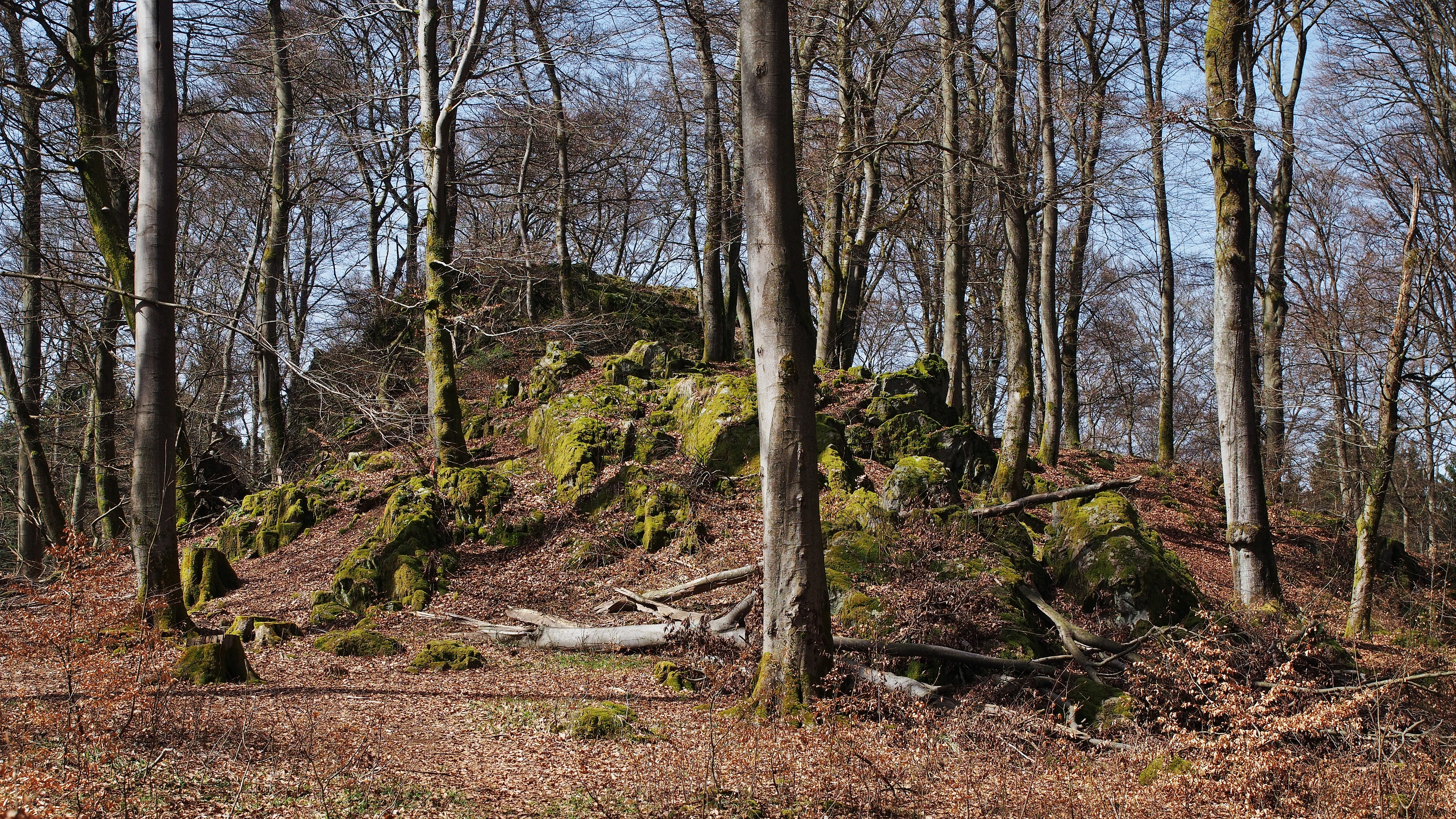 Approaching Seitenstein rock from the East